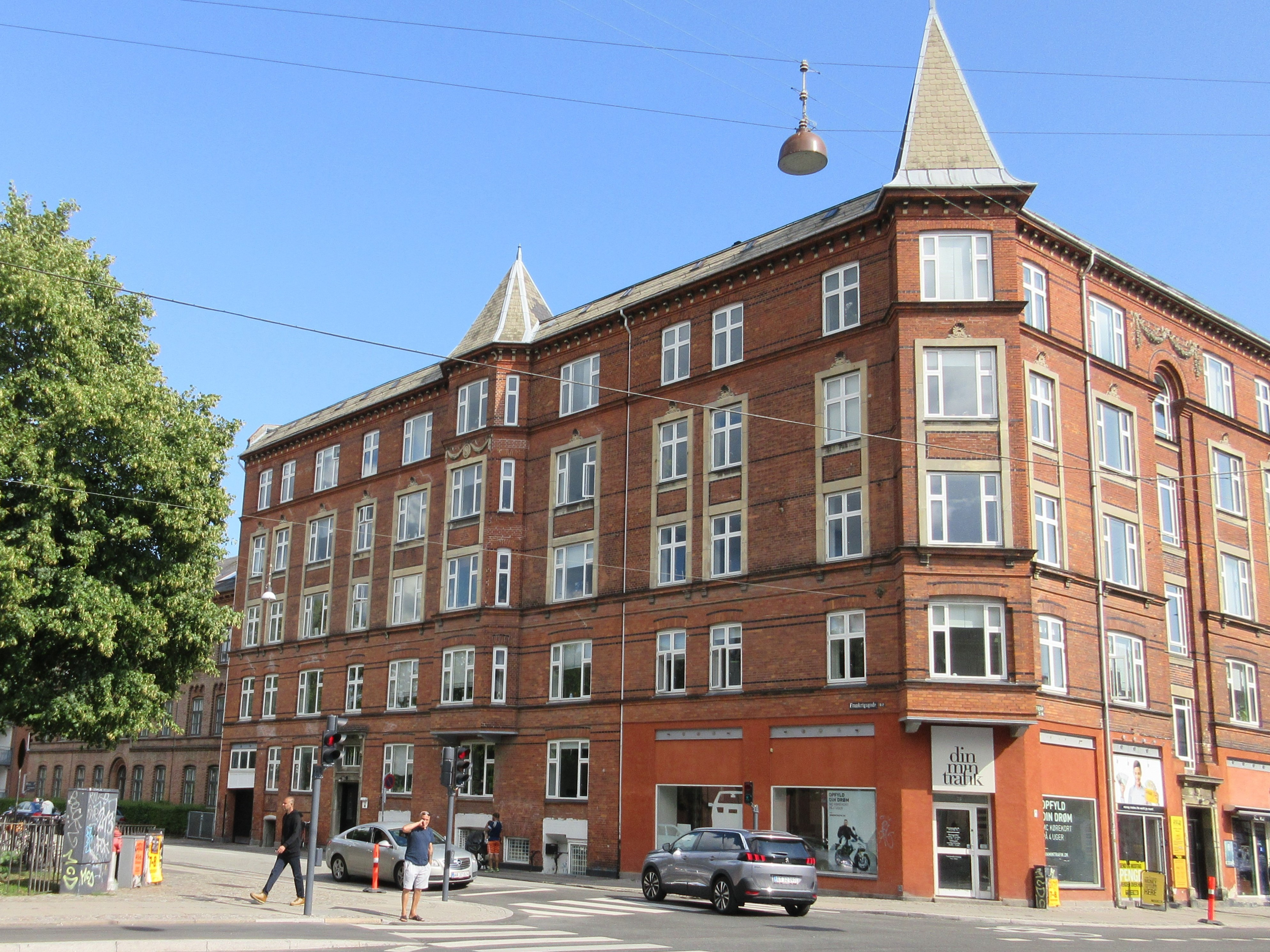 Frankrigs in Copenhagen, Denmarkgade 2 from Amagerbrogade